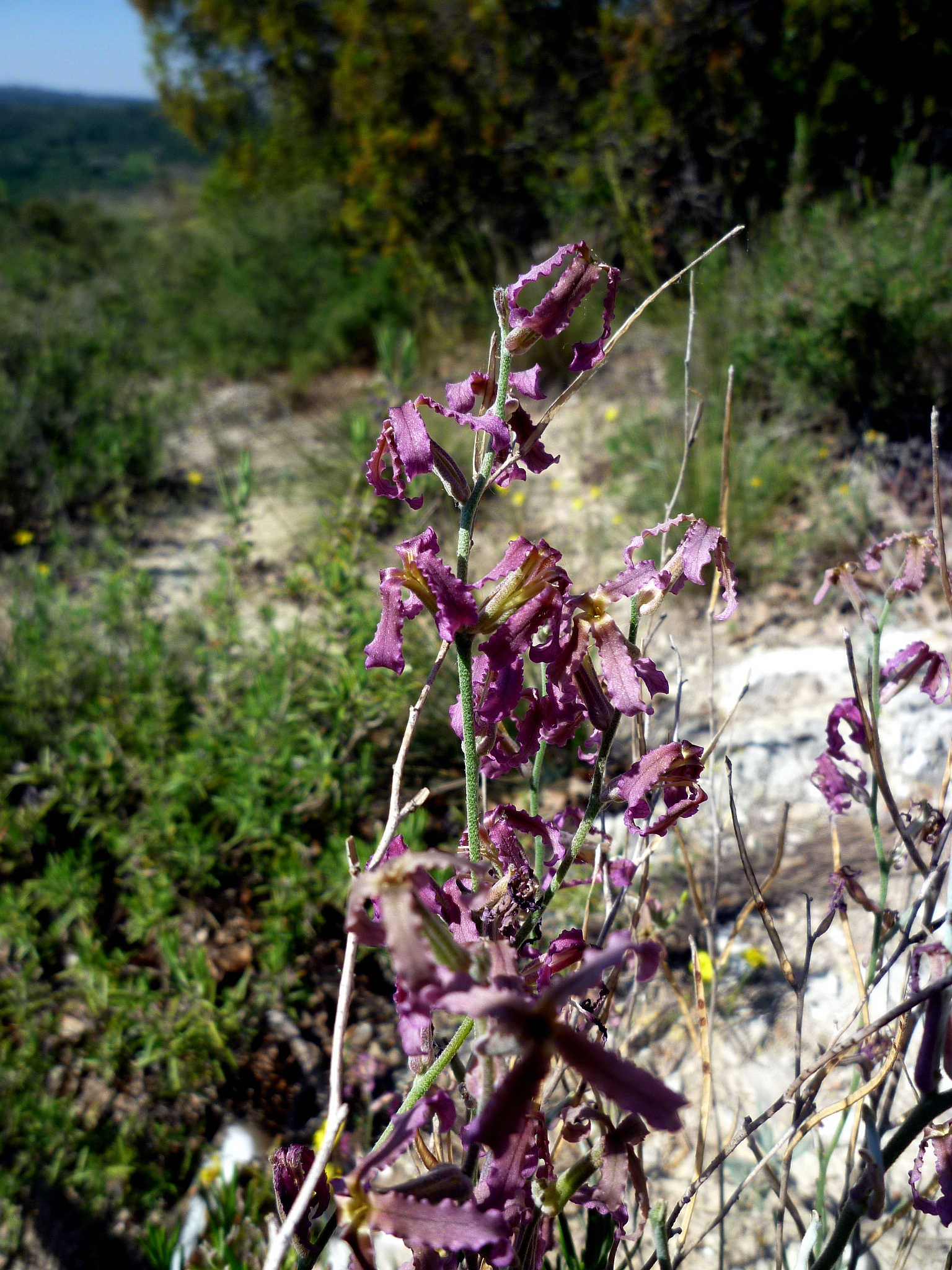 Matthiola fruticulosa. In Biosca (Segarra-Catalunya). To 500 m. altitude